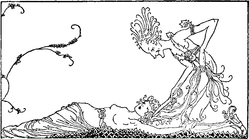 An illustration by Willy Pogany from the chapter "How Loki wrought mischief on Asgard" in Children of Odin (no title otherwise given for the work). Loki cuts the hair of the goddess Sif. From Colum, Padraic, The Children of Odin. New York: The Macmillan Company, 1920. Found at